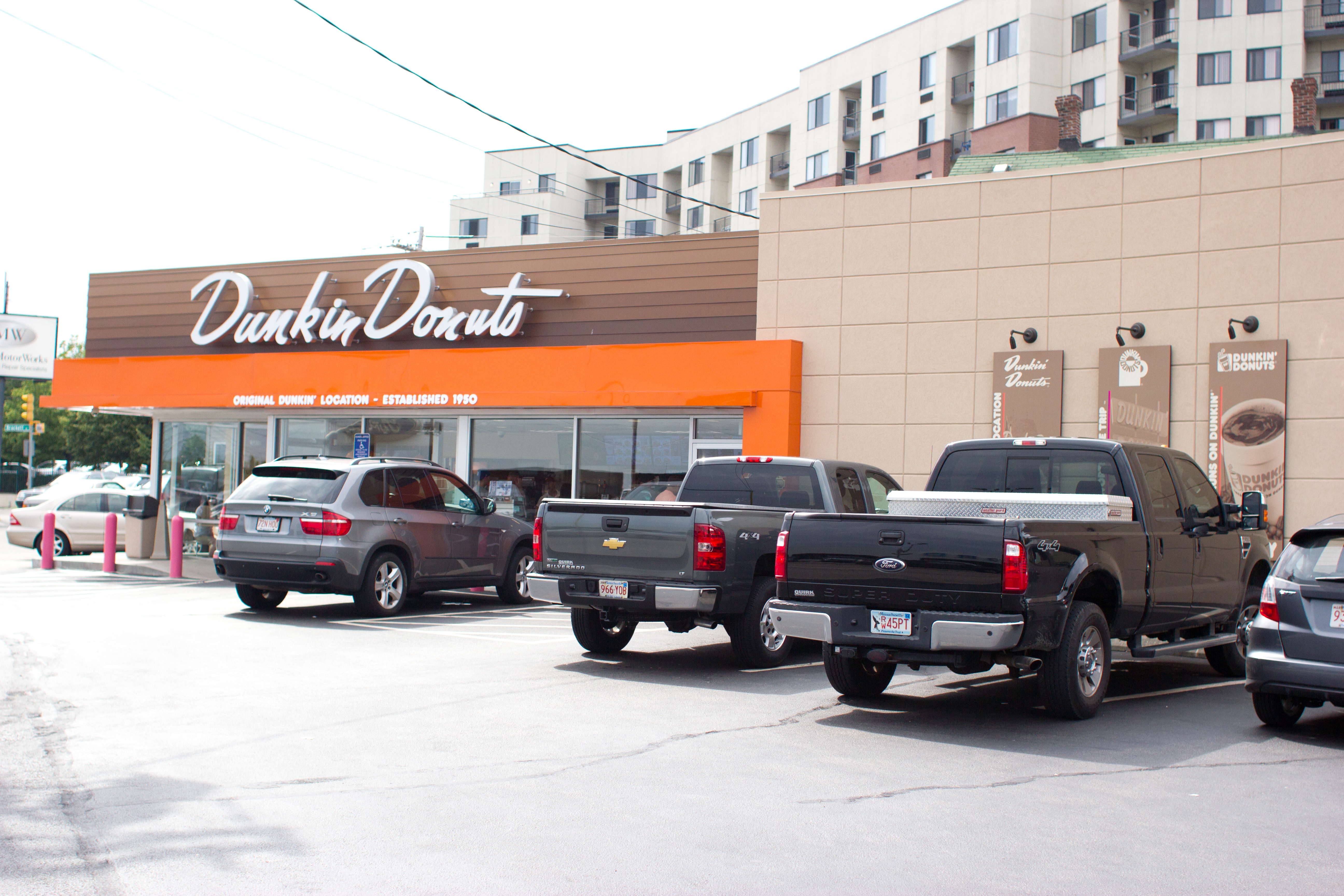 Dunkin Donuts Original Location